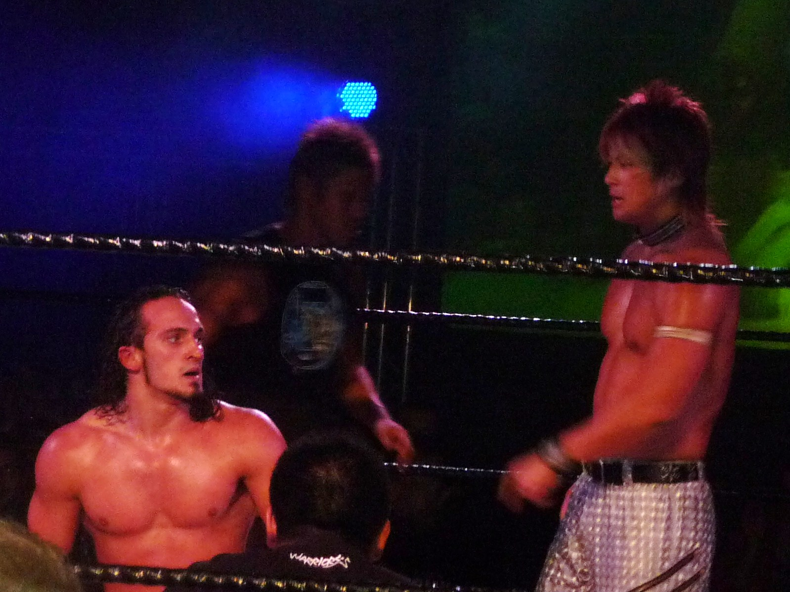 PAC (left), Susumu Yokosuka (centre), and BxB Hulk (right) at a Dragon Gate show in Oxford in November 2009.